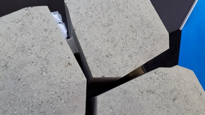 This block is in fact a connected set of four original blocks. The picture shows the concrete connection between the parts. This block has been developed for application on the Afsluitdijk in the Netherlands.